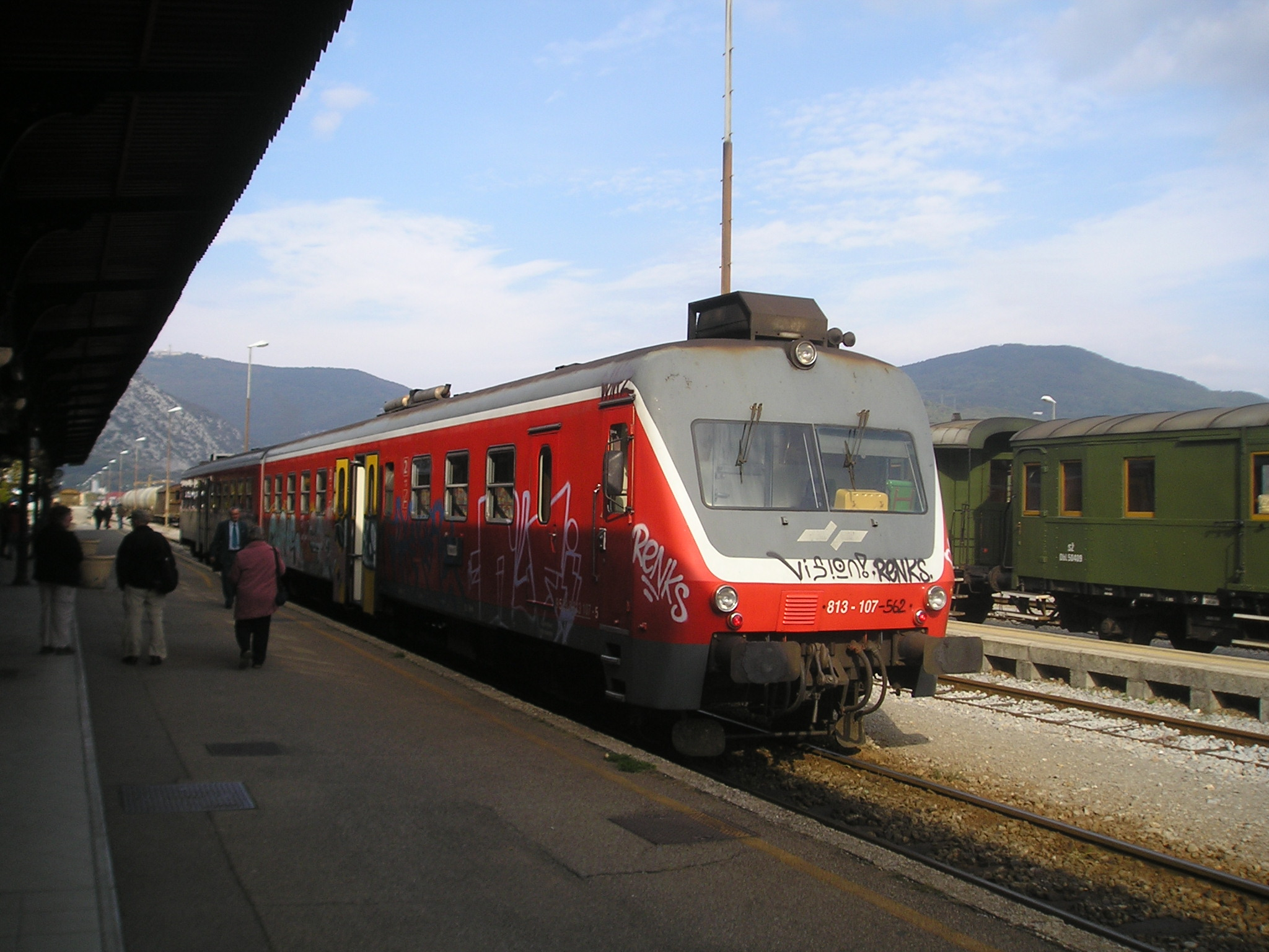 A diesel mechanical multiple unit of SŽ class 813 (engine part)/814 (trailing part), subclass 813-1xx (original chasis was replaced with the one of class 713/715 and renumbered into subclass 813-1xx), also nicknamed fiat. This DMU was photographed at the Nova Gorica train station. Manufacturer: FIAT (Torino, Italy) Delivered to Slovenia: 1973 - 1976, chassis converted in 1990s Axle arrangement: (1A)´(A1)´ + 2´2´ Fuel tank capacity: 830 l Power: 294 kW Max. speed: 100 km/h Weight: 67 t (39 t + 28 t) Length: 44.2 m Width: 2.9 m Axle load: 11 t / 8.5 t Diameter of new wheels: 920 mm Min. curv radius: 90 m Nr. of passenger seats: 156 (74 + 82) About the class 813/814.